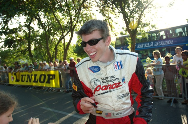 Pictures from the 24 Hours of Le Mans 2006 Drivers' Parade. - No.77 Multimatic Panoz driver Tom Milner (Jr.)